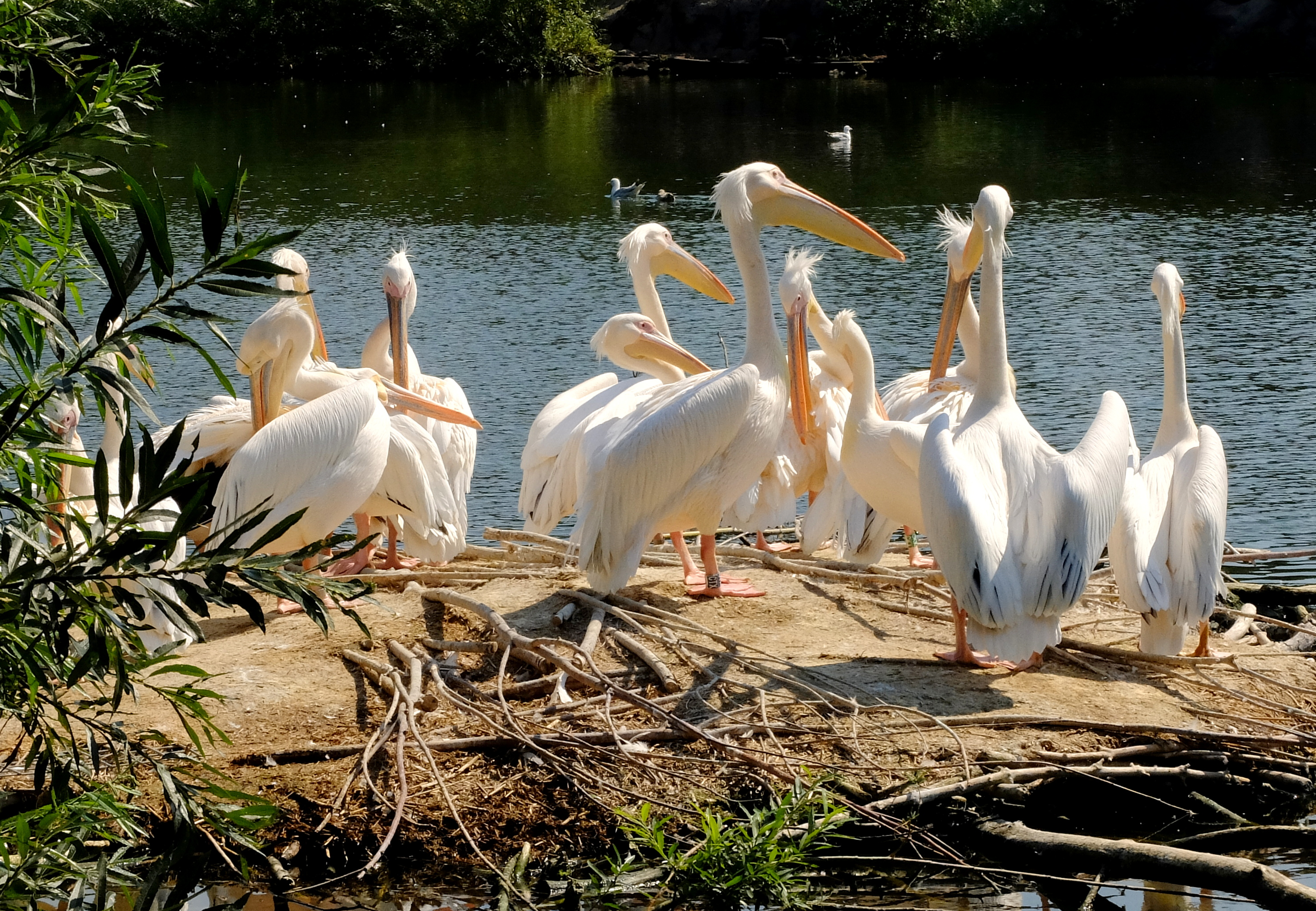 Dutch bird park Avifauna, Alphen aan den Rijn.